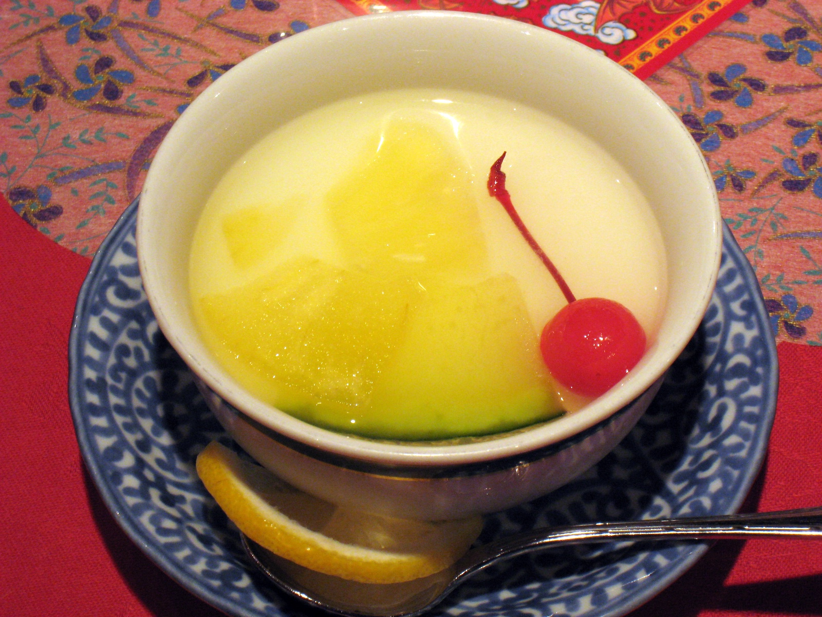 These two desserts were excellent. One is an almond tofu with some kind of syrup. The other is squares of tofu covered with ground soybeans and a brown sugar syrup.